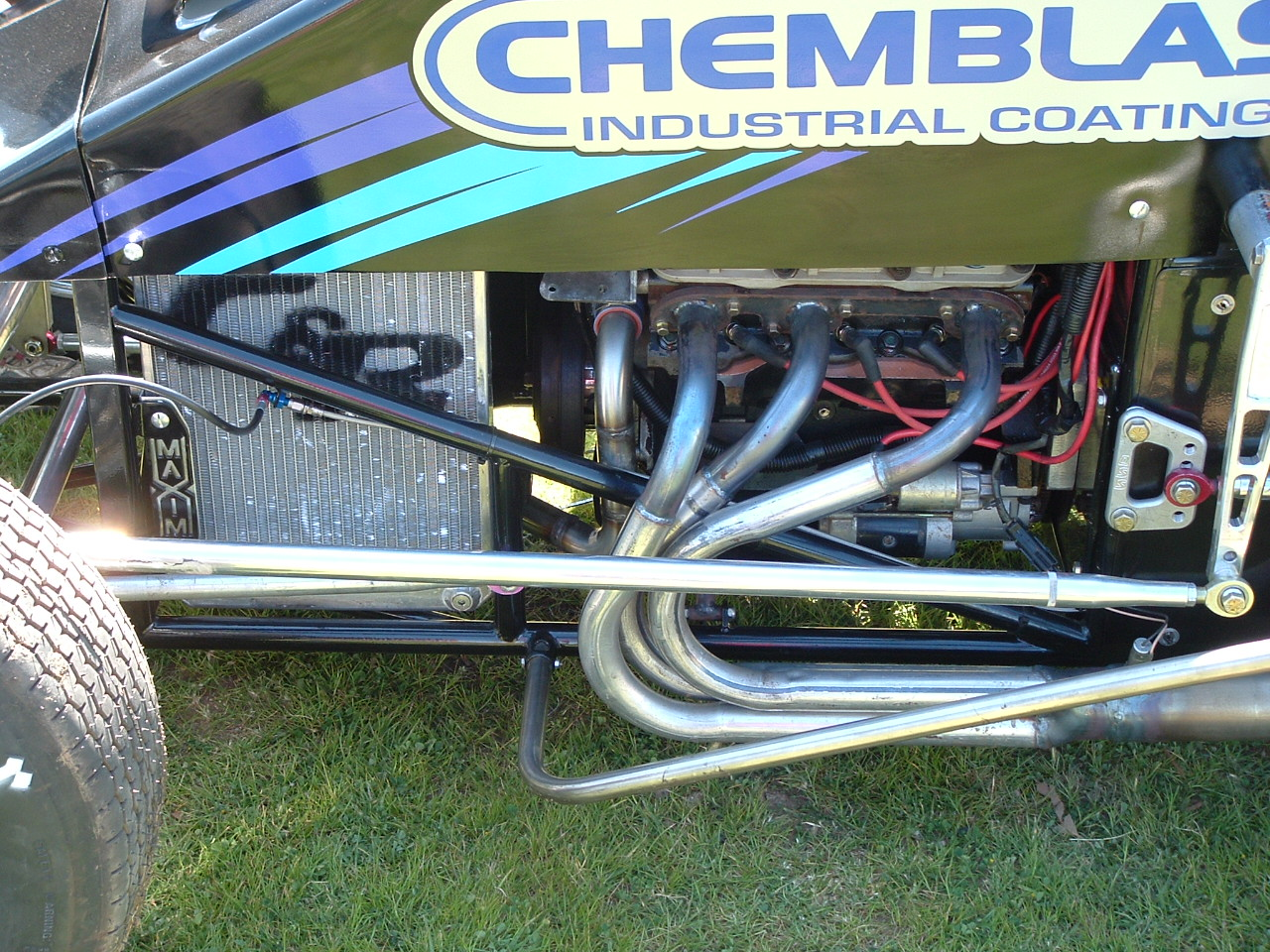 Close-up side view of a Holden-Buick 3800 cc V6 engine in a wingless sprint racing car.